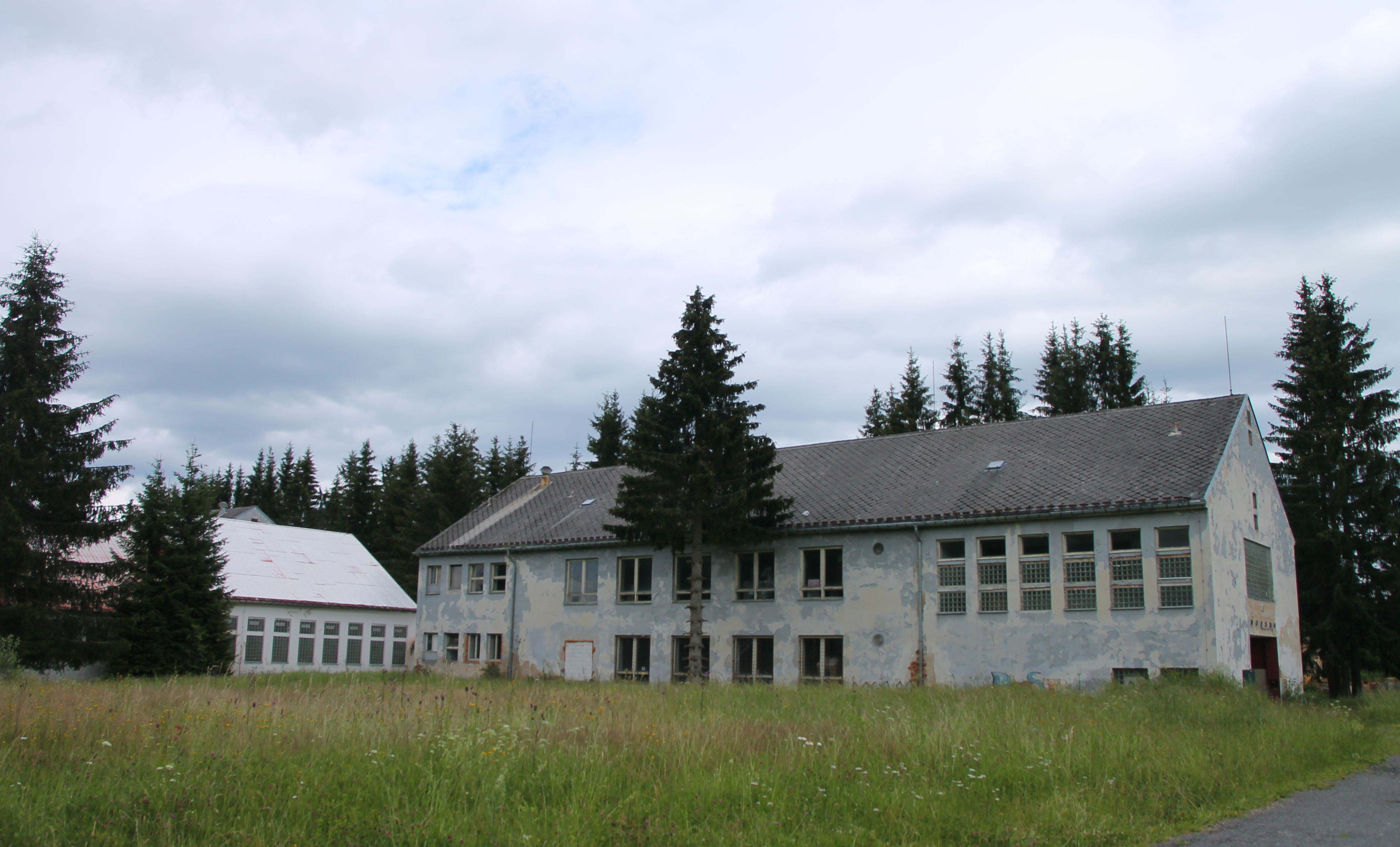 Former barracks „U Sloupů“ in Vimperk